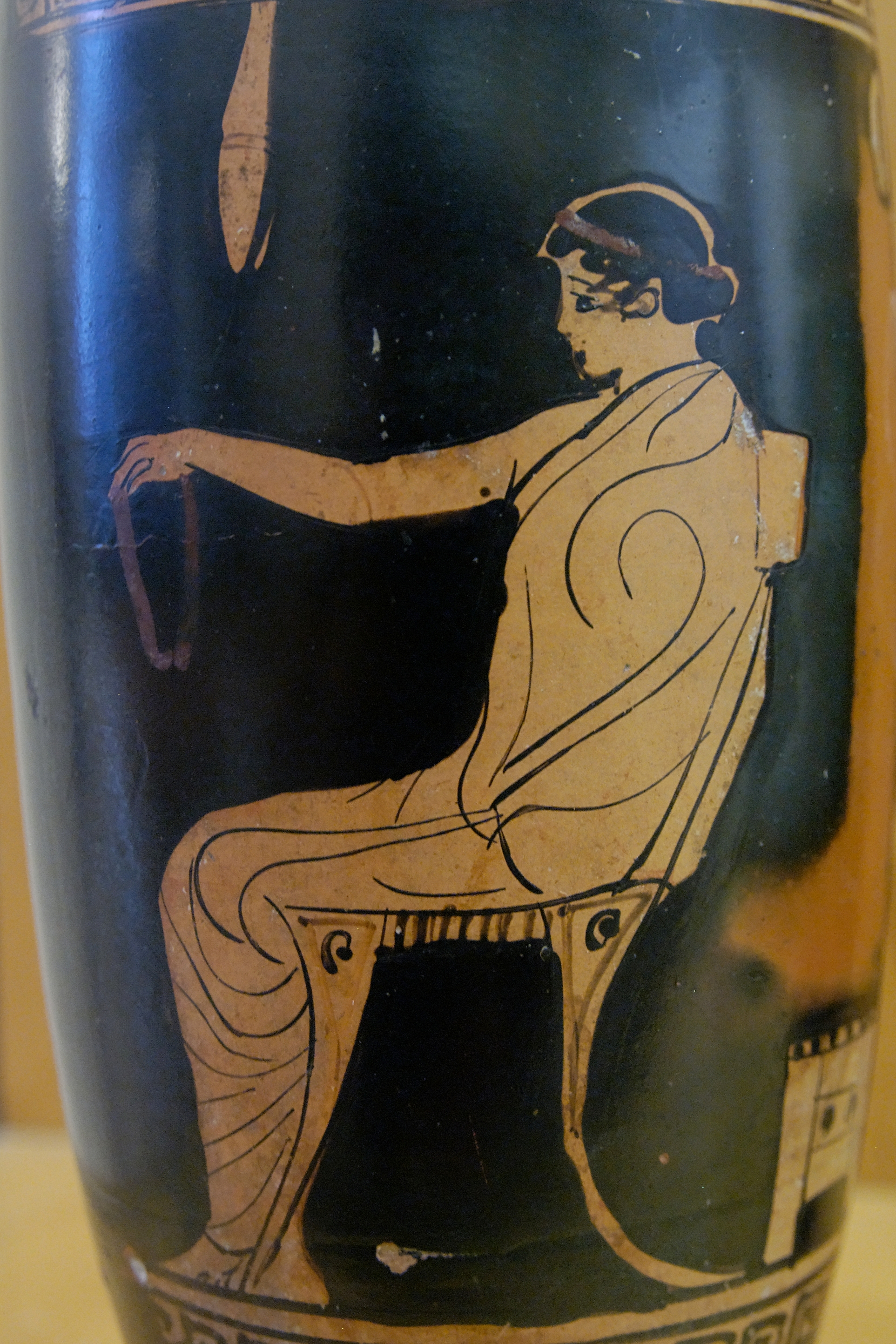 Woman seated on a klismos. Attic red-figure lekythos.